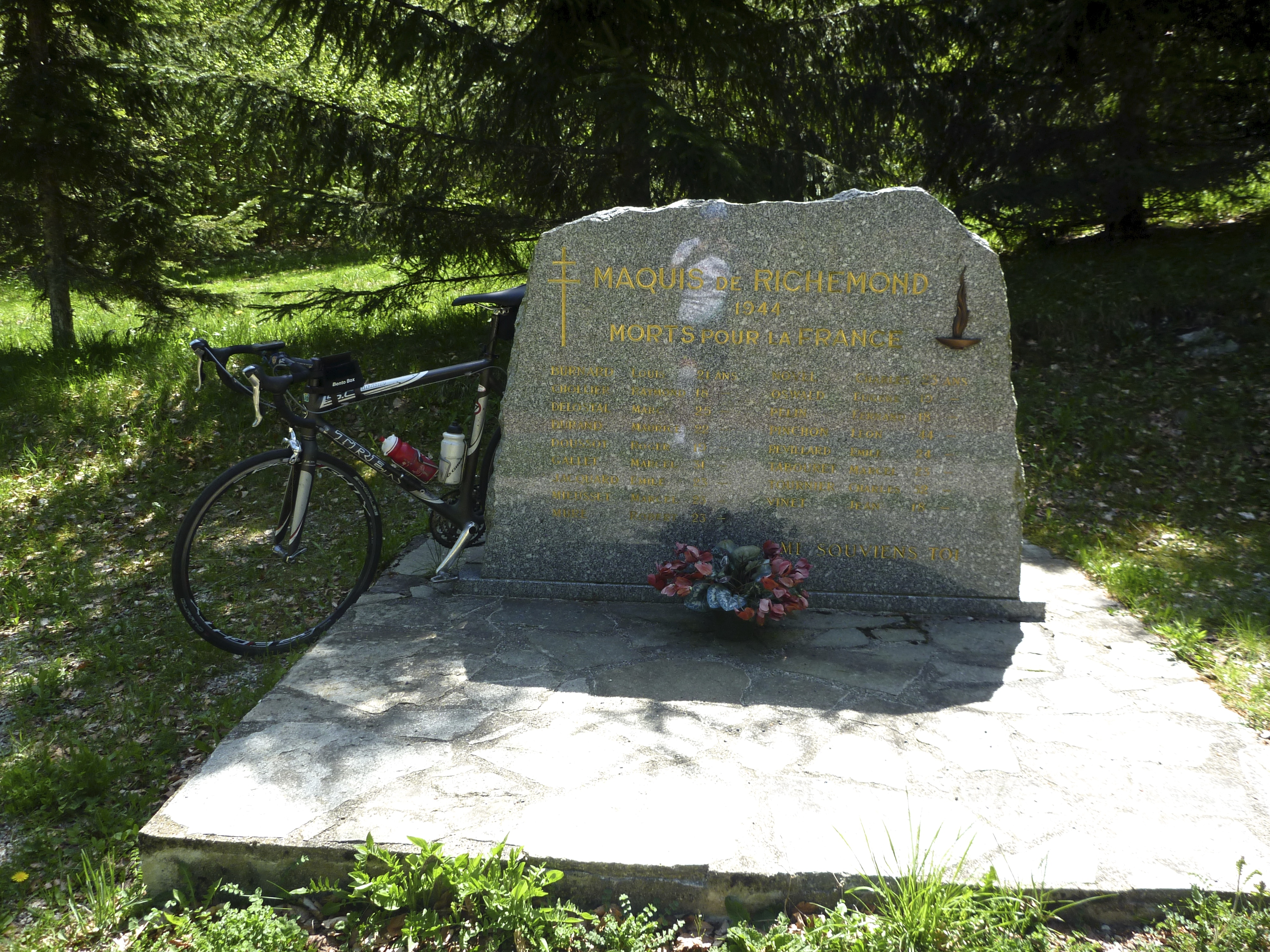 (Col sign missing)